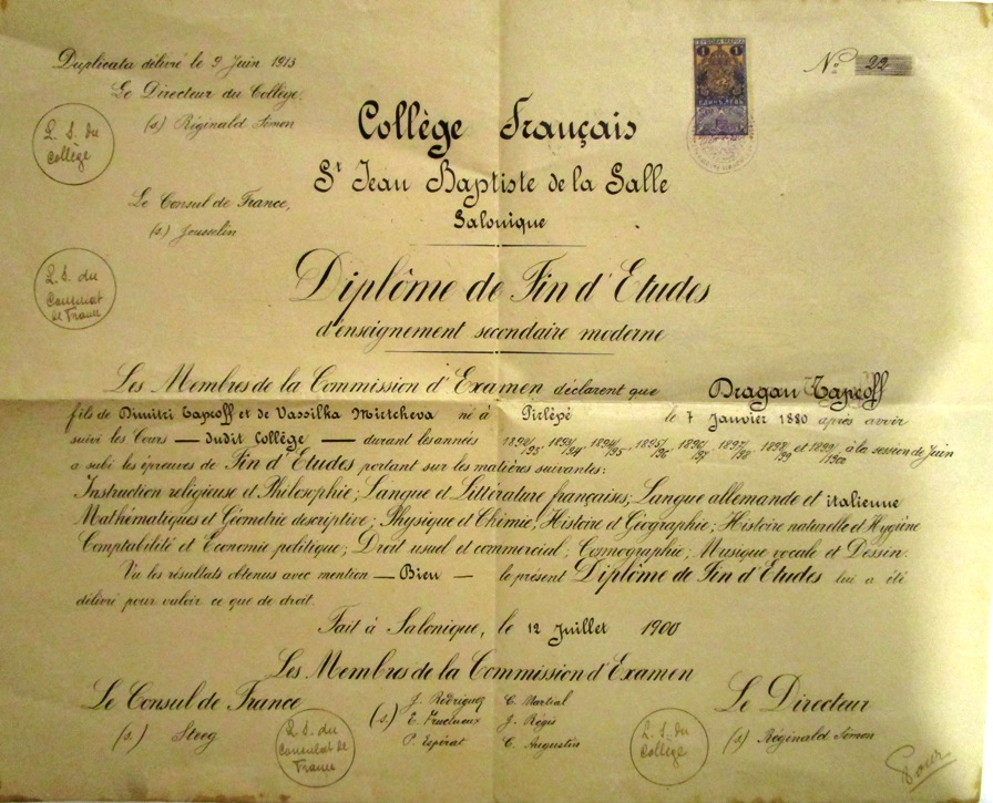 School certificate from the French college Saint Jean Baptiste de la Salle in Thessaloniki, 1900